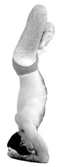 Padma Sirshásana - Inverted position with legs in padma.